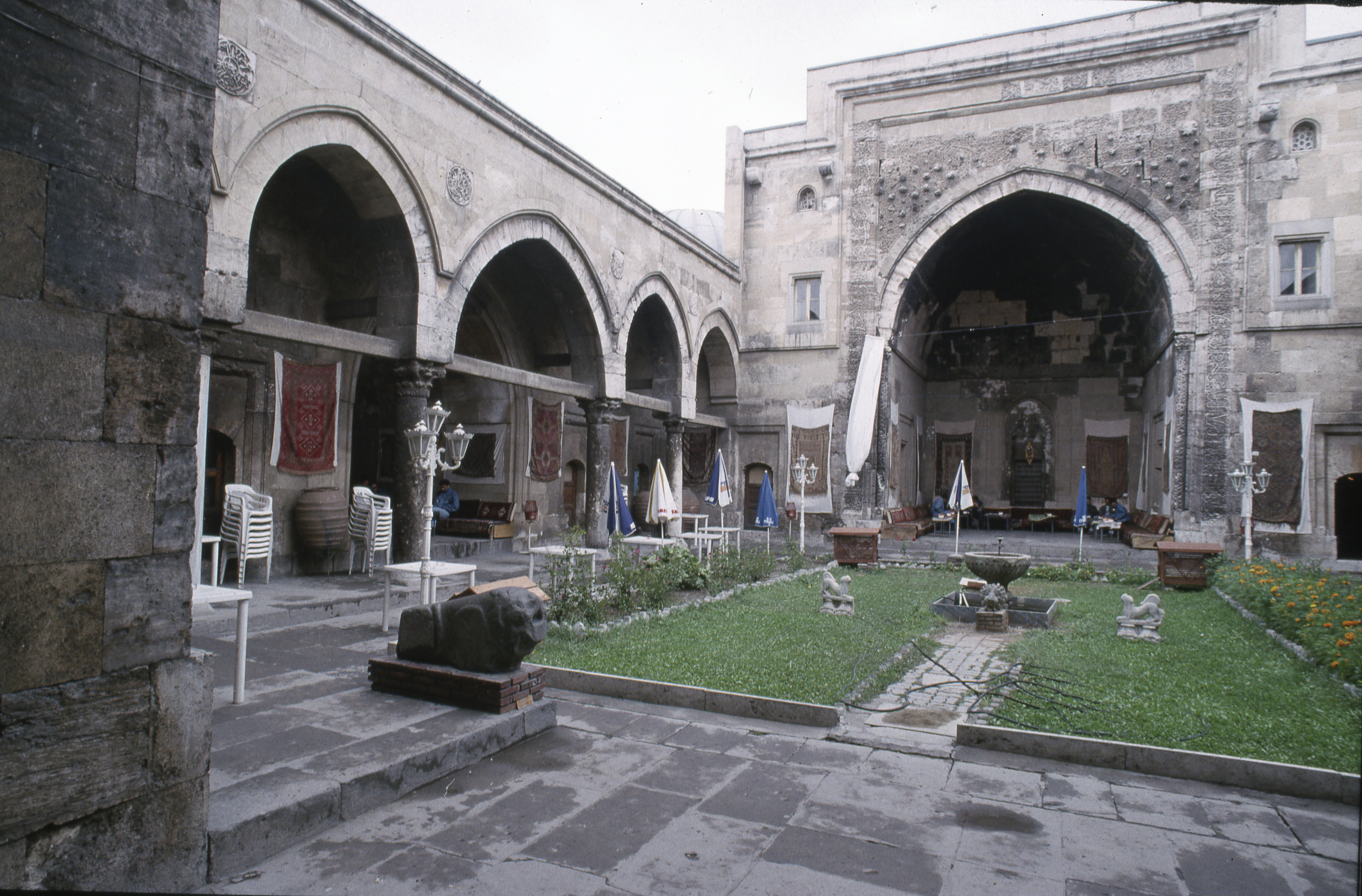 I quote from the notice at its entrance: Muzafer Burucerdi, who came from the area of Hamedan in Iran and settled down in Sivas was one of the richest people in Sivas. The Bürüciye Medrese was built under his orders in 1271 to teach positive science. The medrese which has an open courtyard and four eyvans (three walled vaulted antechambers) is one of the most beautiful examples of Seljuk stonework. The notice mentions a tomb of the founder and his two children with very fine tiles.